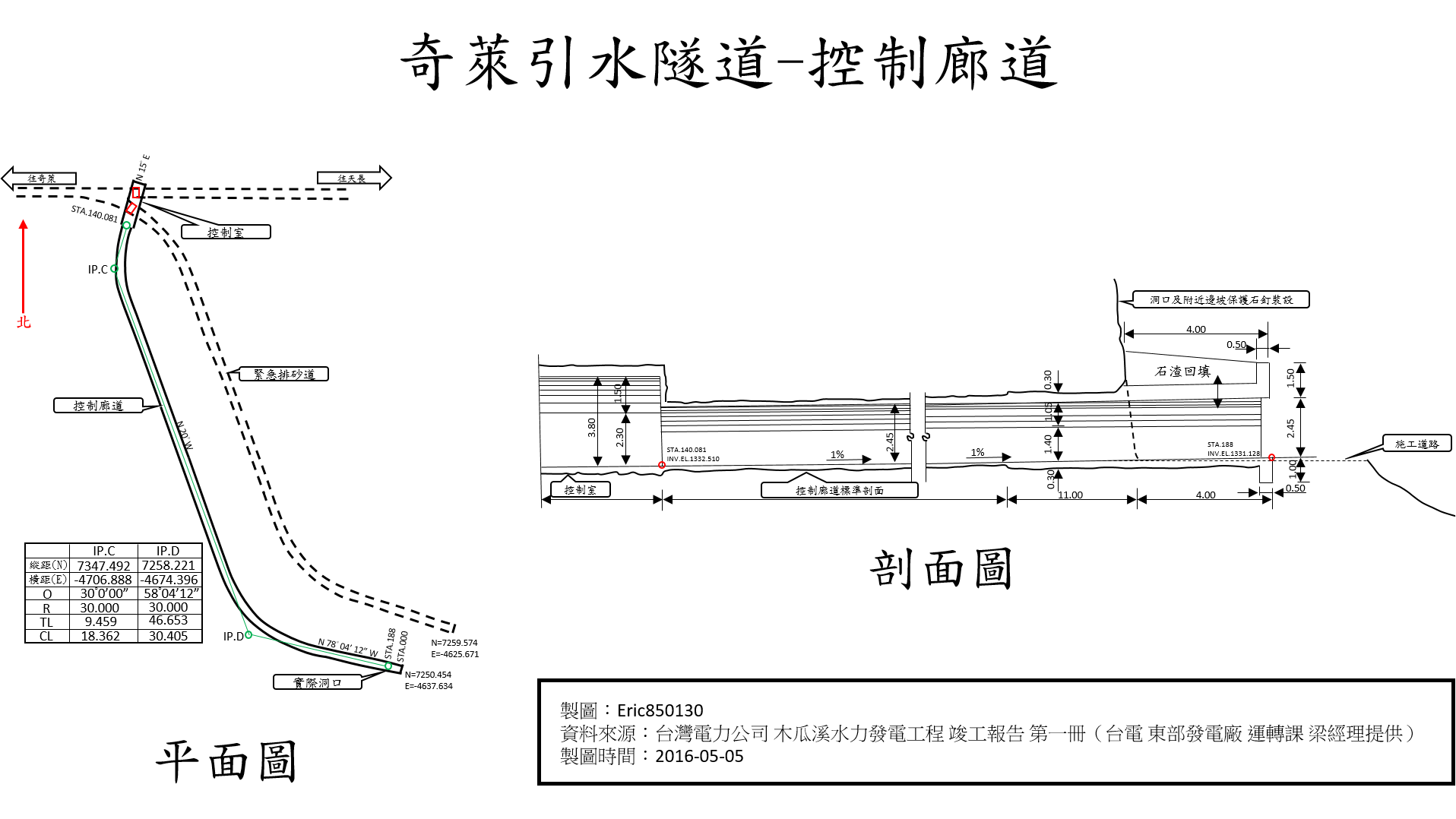 Qilai Diversion Tunnel Control corridor